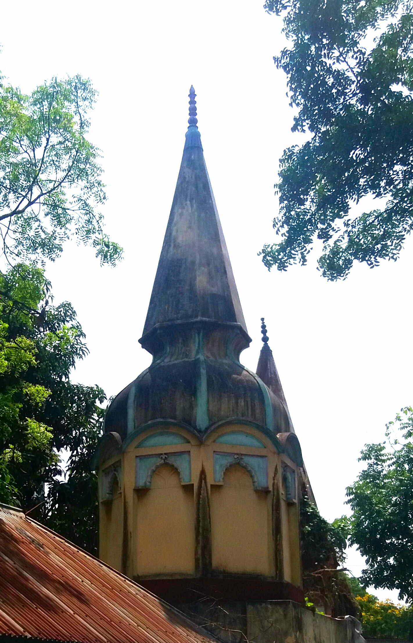 শিবমন্দির ও কালীমন্দির (মঠ স্থাপত্য) স্বামীবাগ, ঢাকা প্রতিষ্ঠা:২১ বৈশাখ ১৮২৪ শকাব্দ, রবিবার কৃষ্ণ একাদশী (১৯০২ খ্রিস্টাব্দ) Shiva temple and Kali temple Swamibag, Dhaka Establishment: 1902 AD